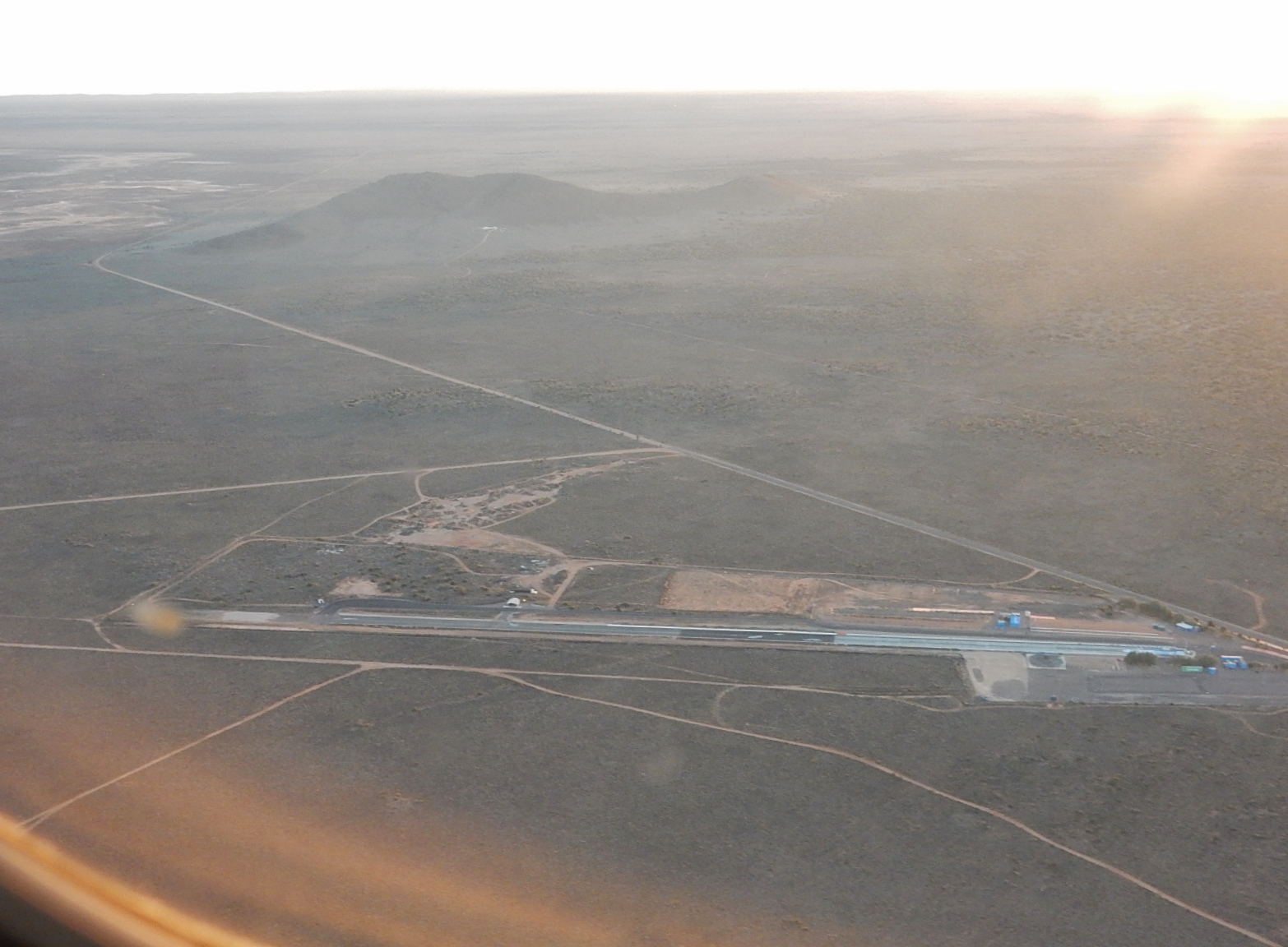 Whyalla Airstrip